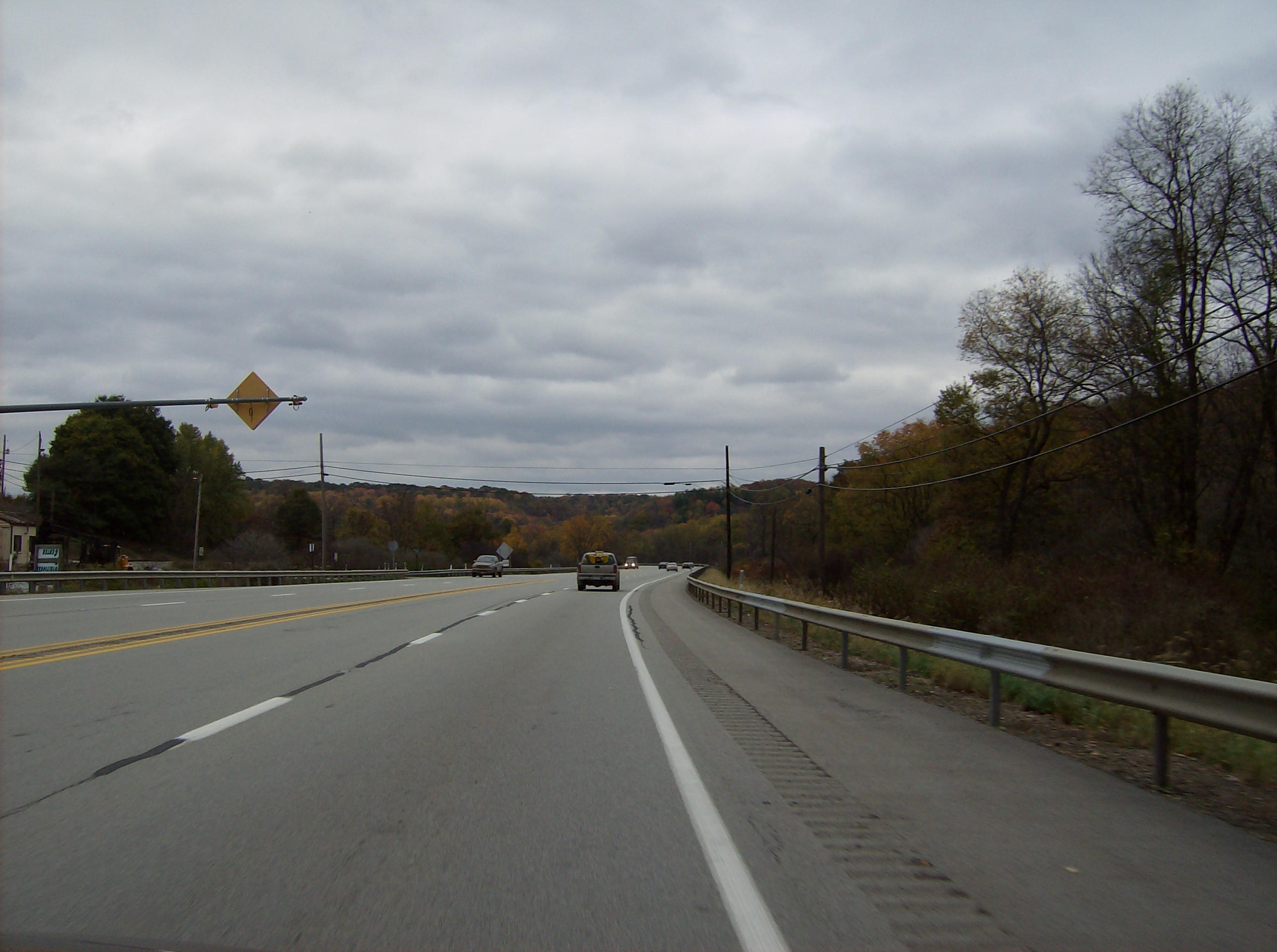 Along eastbound U.S. Route 422 in central Summit Township, Butler County, Pennsylvania, United States.